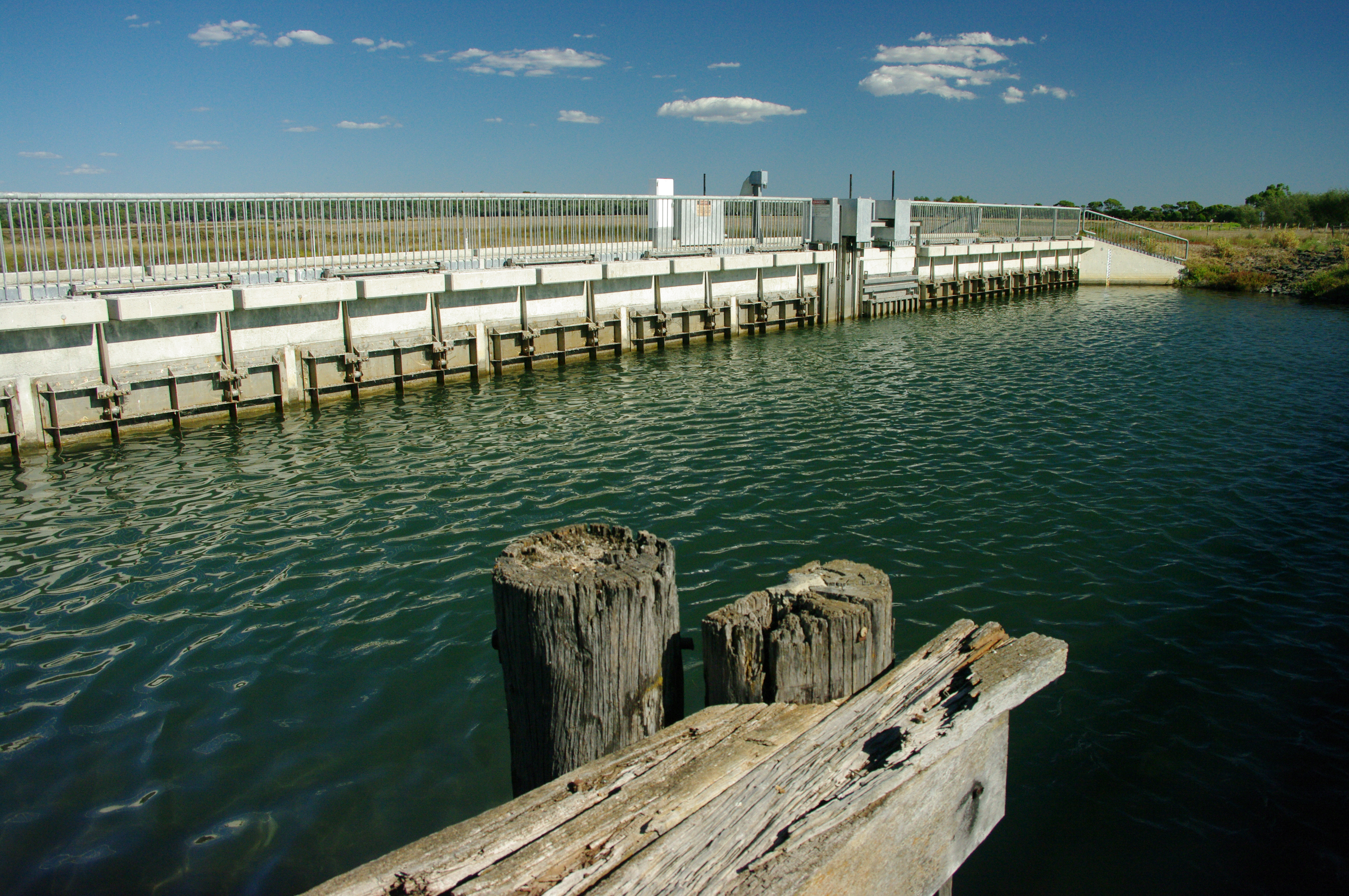 Wonnerup Flood gates new gates with the eastern abuntment of the original gates in the foreground